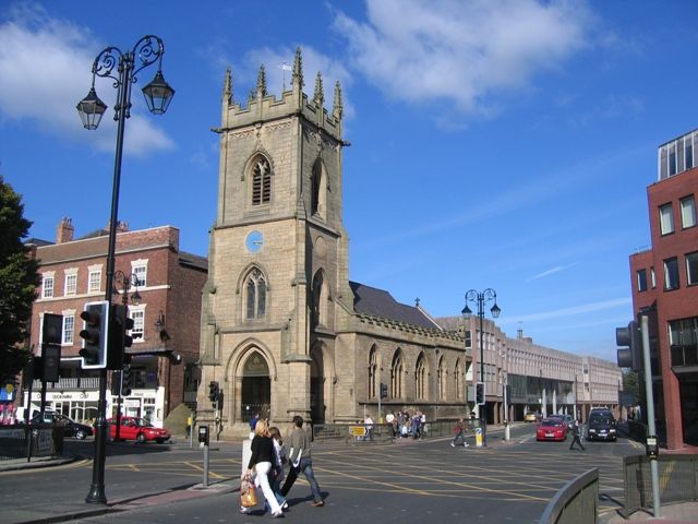 Chester History and Heritage Centre, at the junction of Bridge Street (left) and Pepper Street (right), Chester, Cheshire, seen from the southwest